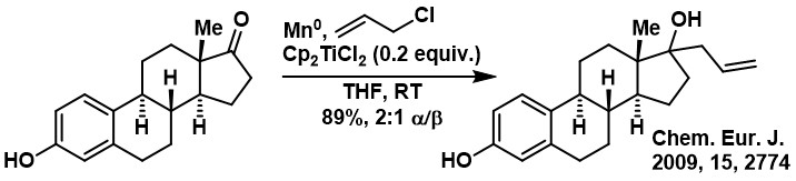 Ti(III) promoted Barbier reaction with ketone